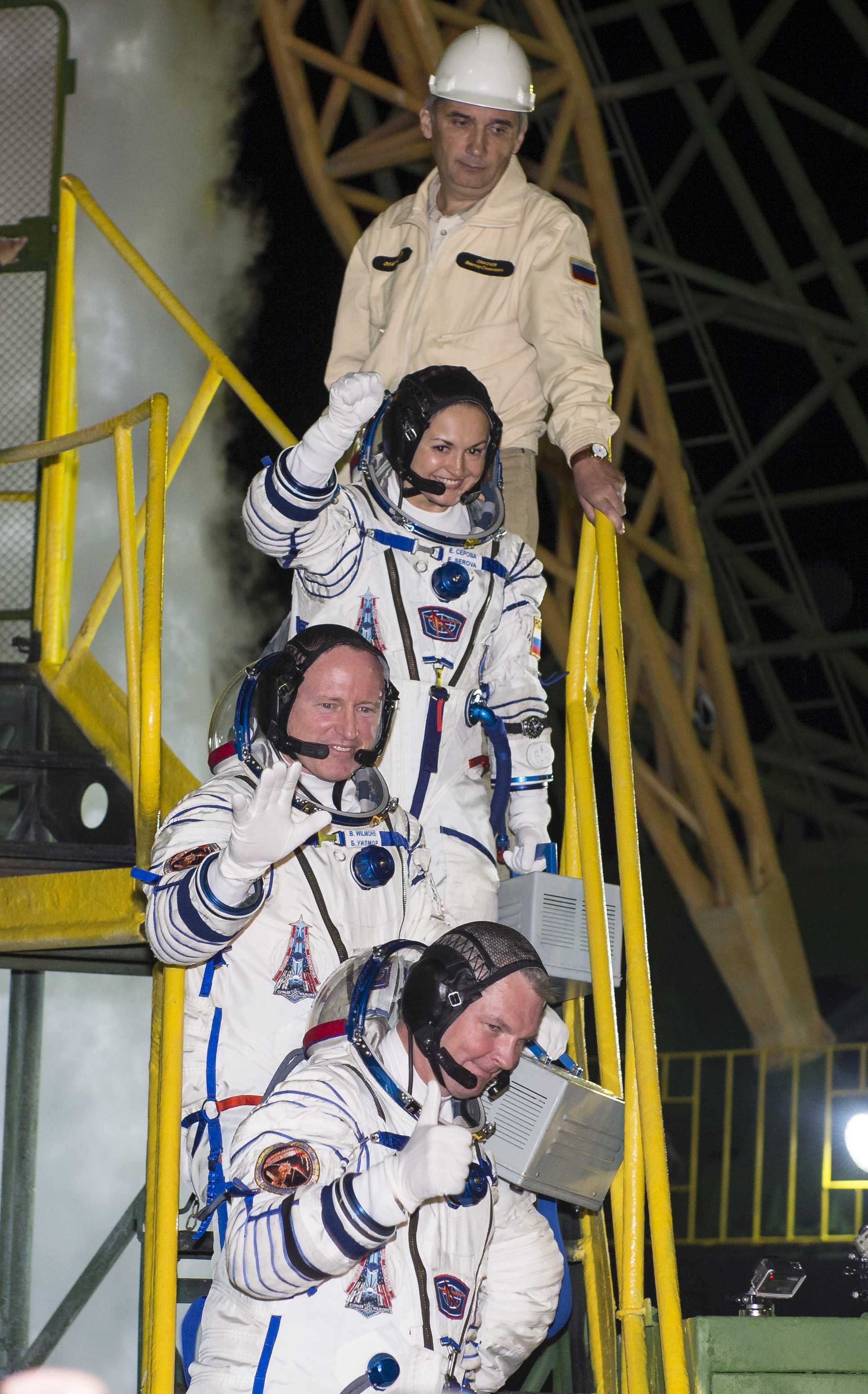 Expedition 41 Soyuz Commander Alexander Samokutyaev of the Russian Federal Space Agency (Roscosmos), bottom, Flight Engineer Barry Wilmore of NASA, middle, and Elena Serova of Roscosmos, top, wave farewell prior to boarding the Soyuz TMA-14M spacecraft for launch, Thursday, Sept. 25, 2014 at the Baikonur Cosmodrome in Kazakhstan. Samokutyaev, Wilmore, and Serova will spend the next five and a half months aboard the International Space Station.